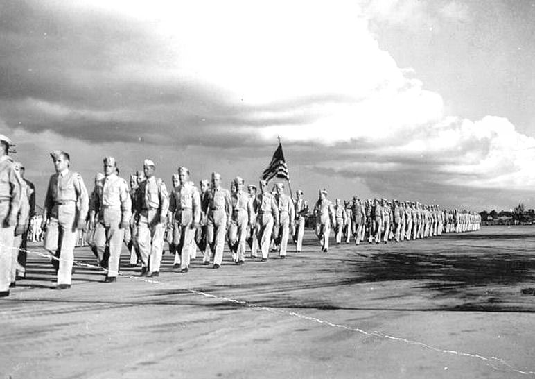 Buckingham Army Airfield - graduation parade 1944